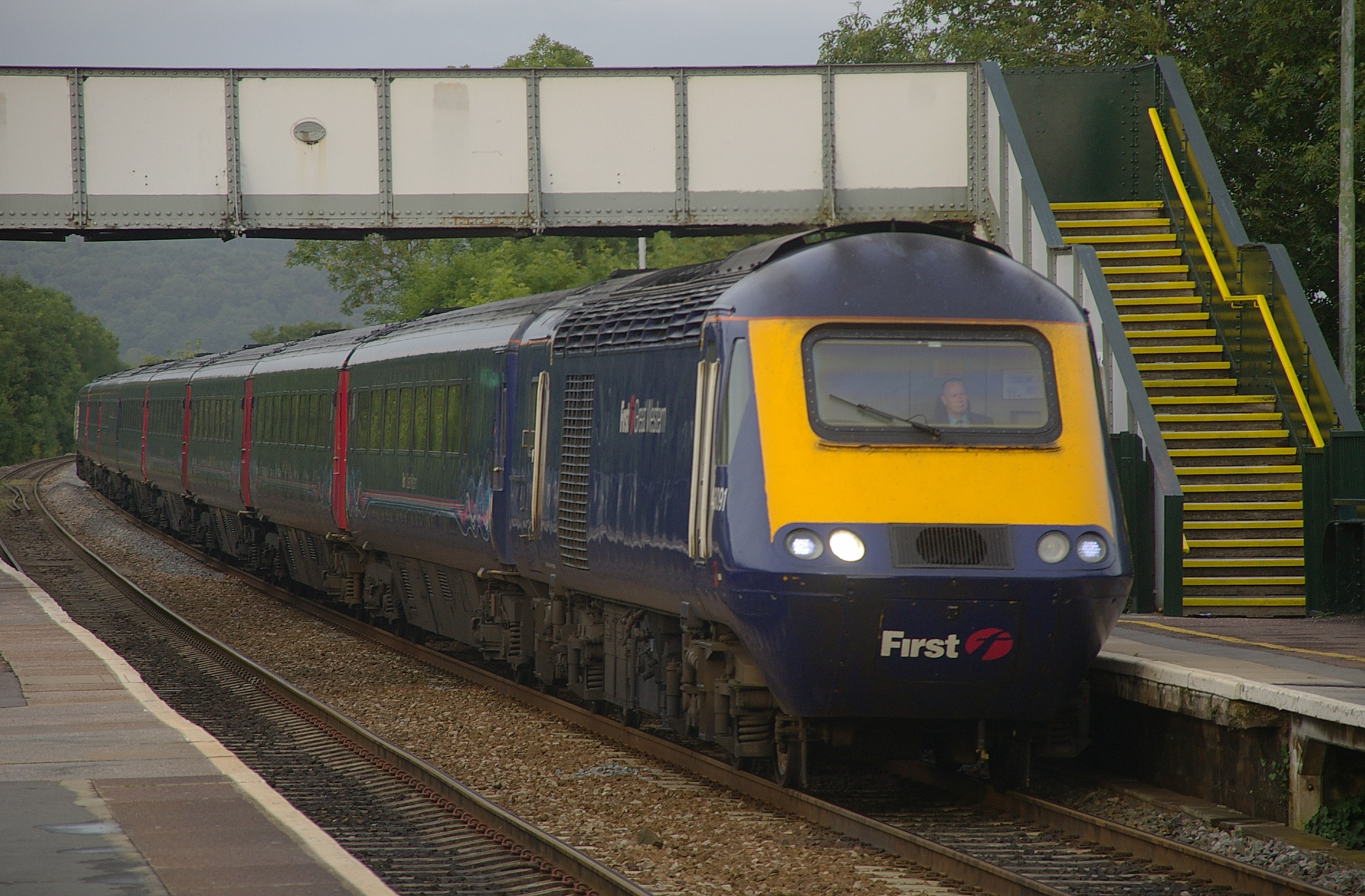 A First Great Western Intercity 125, headed by 43091, stops at Nailsea & Backwell railway station on its way west.